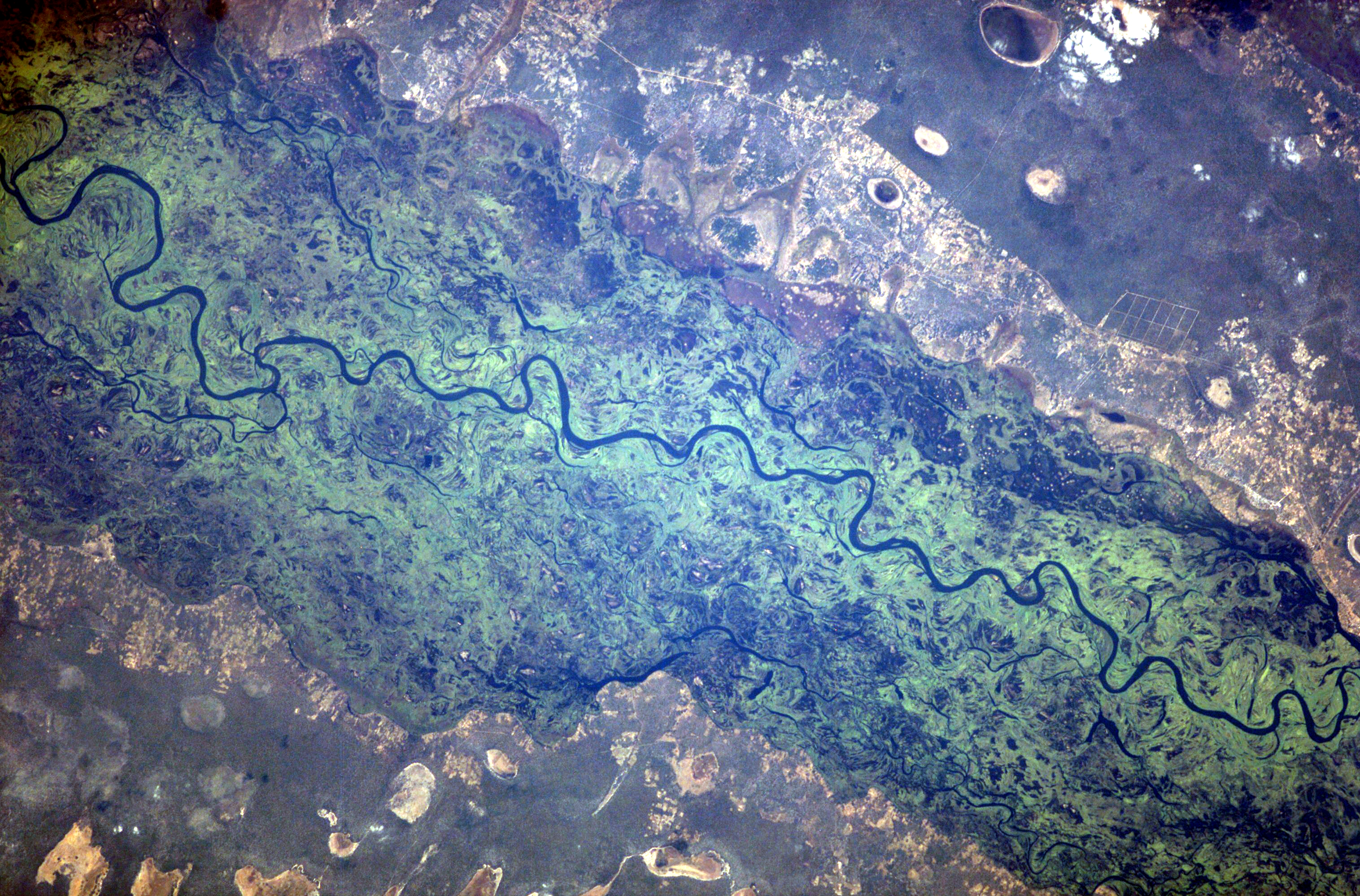 The Zambezi river and its floodplain, seen from the international space station.